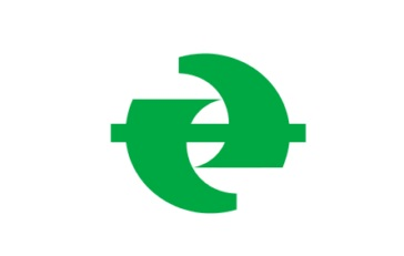 Flag of Seika Kyoto